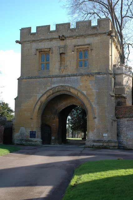 The Gatehouse, Tewkesbury Abbey The Gatehouse at Tewkesbury Abbey is situated just to the west of the abbey.